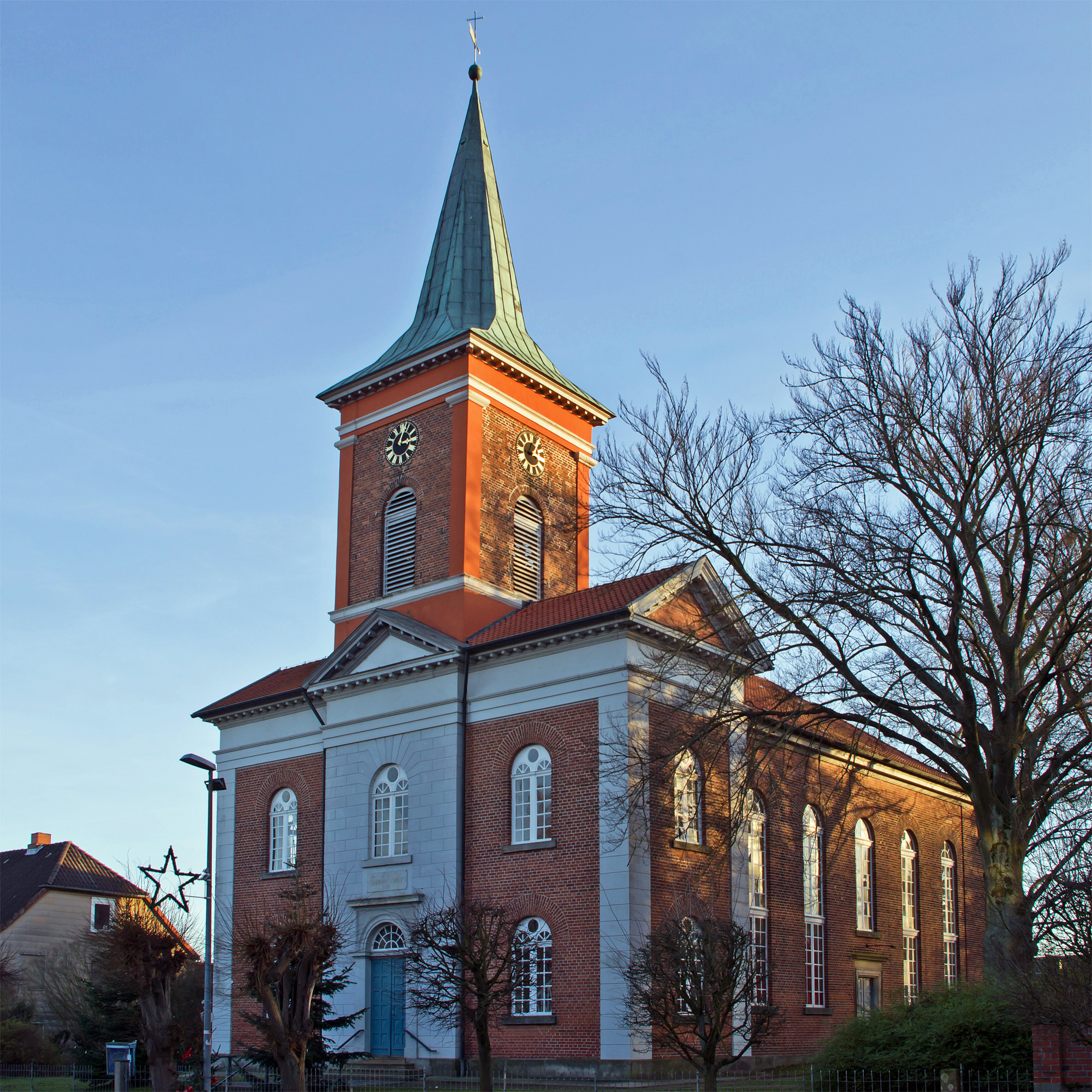 Church of Bergen/Dumme (district Lüchow-Dannenberg, northern Germany).